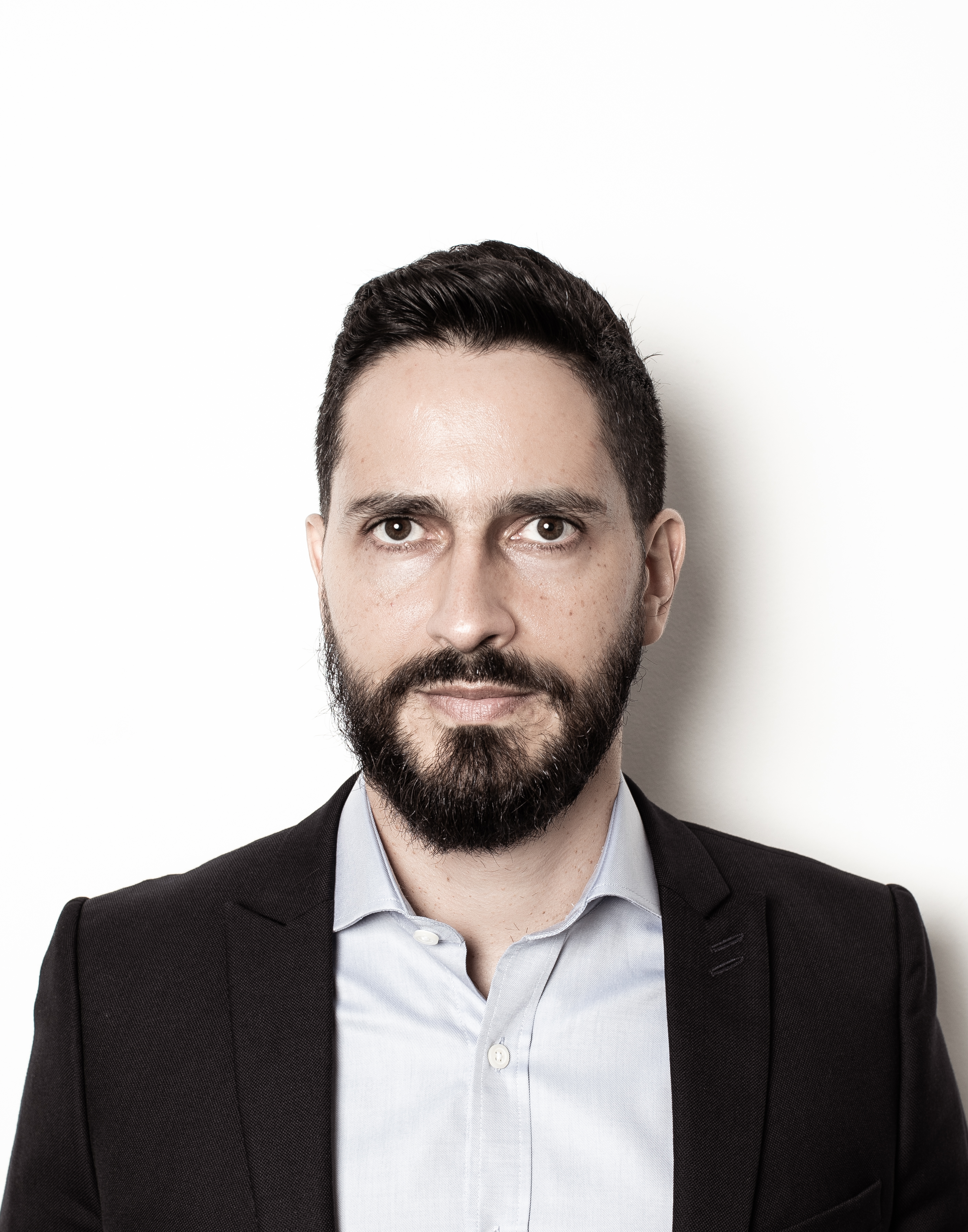 Ronaldo Lemos in 2020